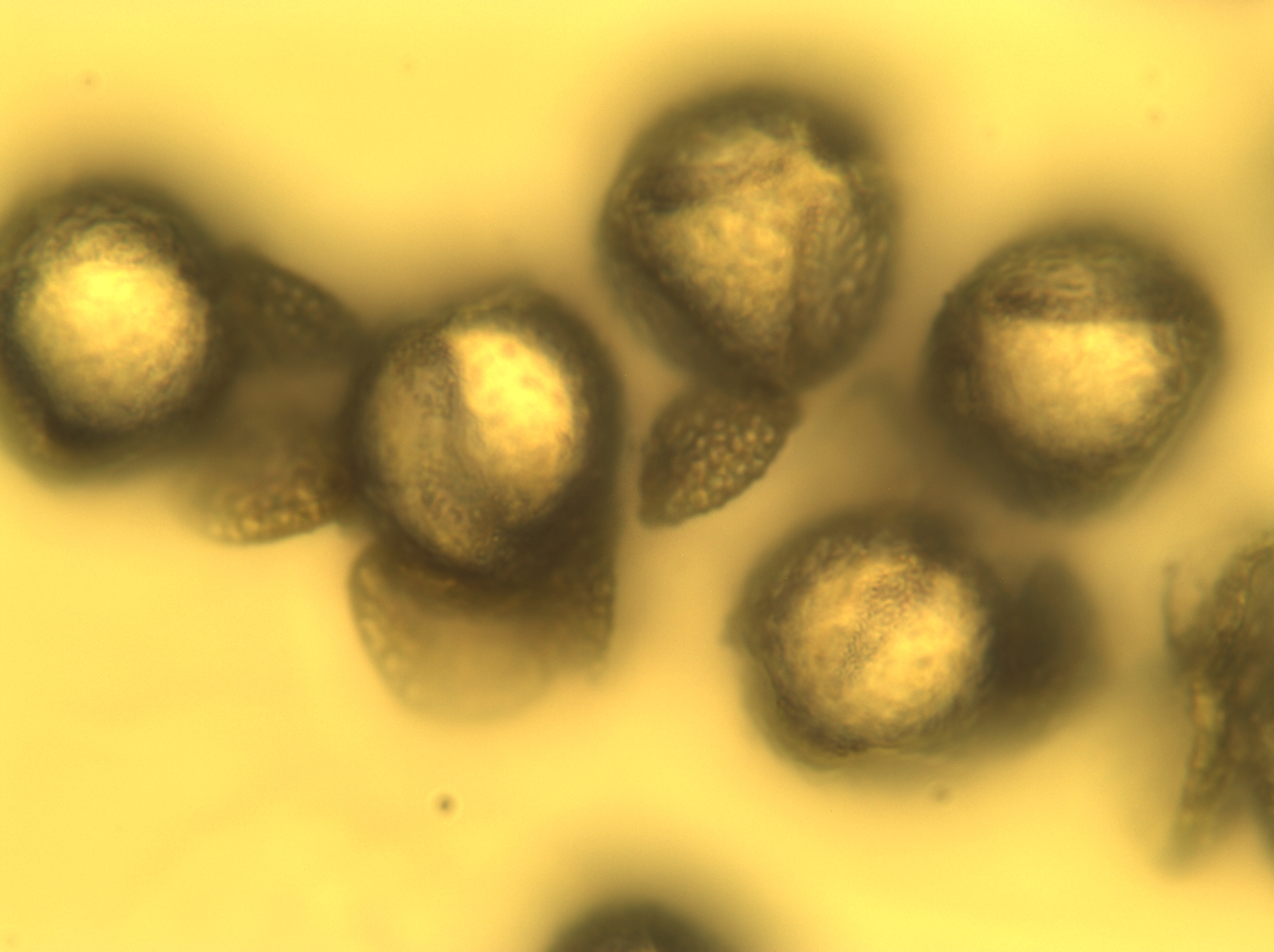 Corycalis cava Pollen 400x